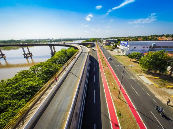 Avenida Piaui em Timon